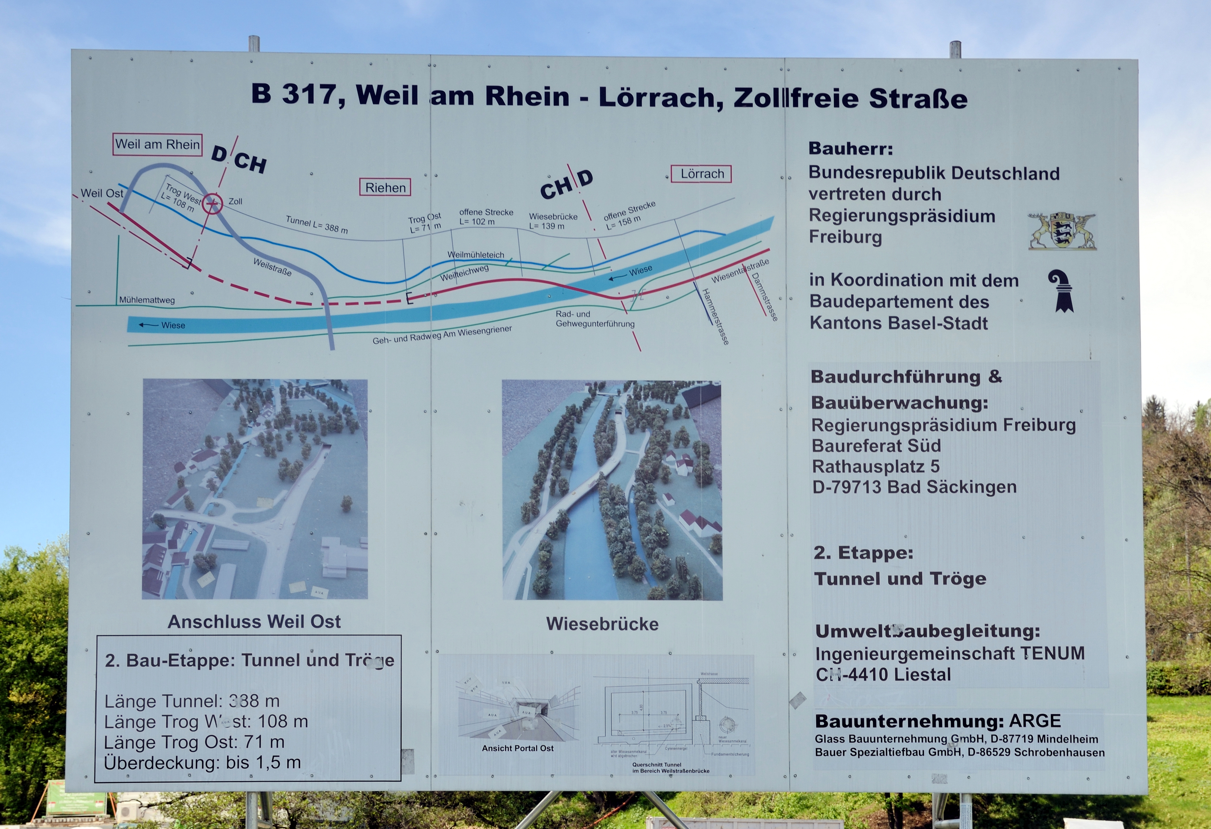 information table for the "Zollfreistrasse"